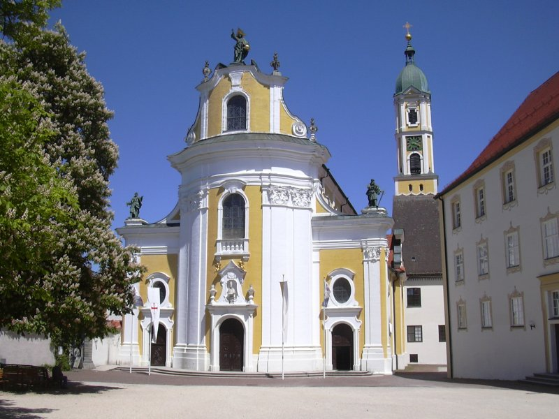 Former Abbey of Ochsenhausen, Germany: Church (now parish church)